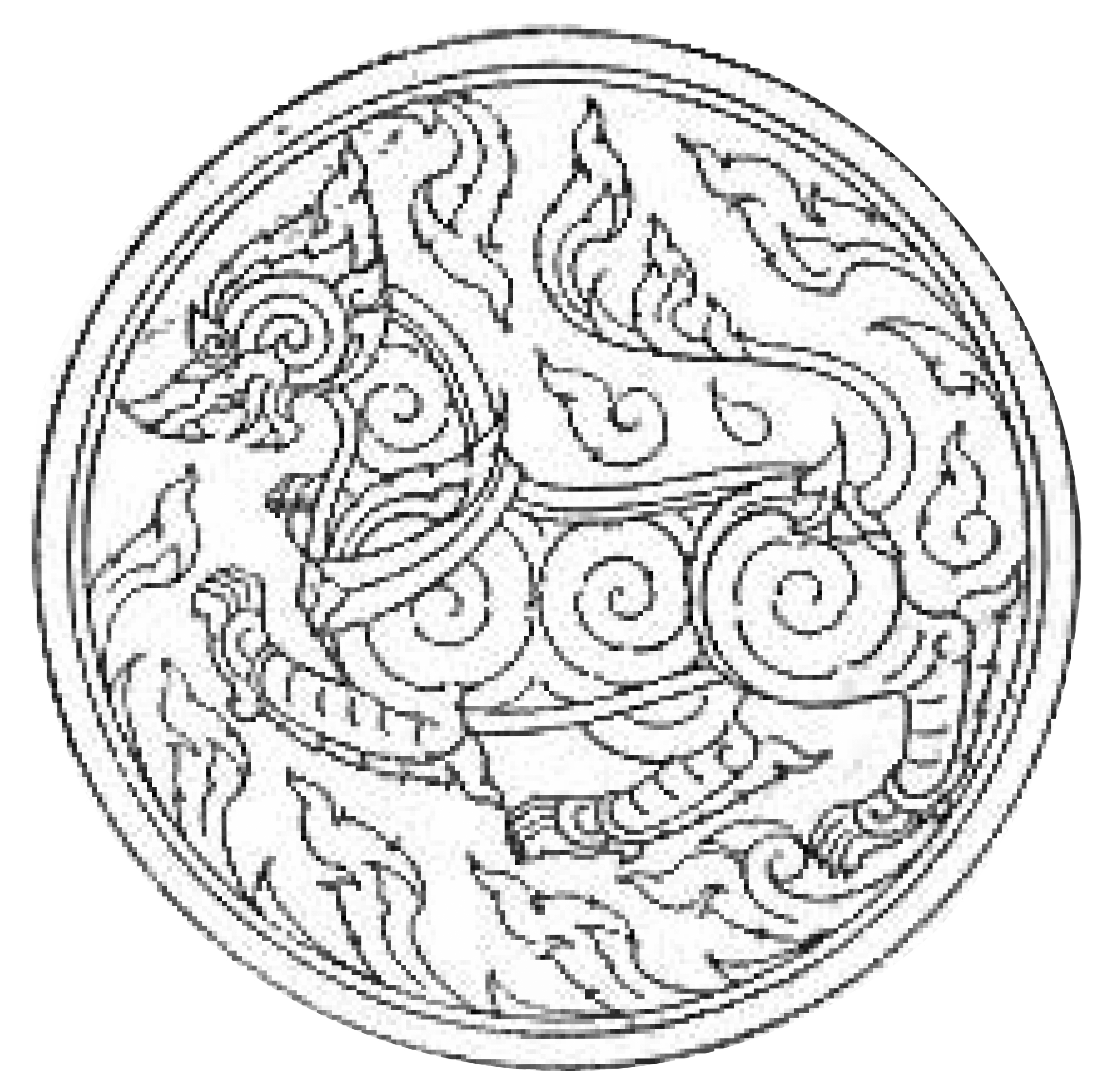 The Seal of the Rajasiha (Lion), see detailed information in The Royal Emblems and the Positional Seals by Phraya Anumanratchathon (Yong Sathiankoset).